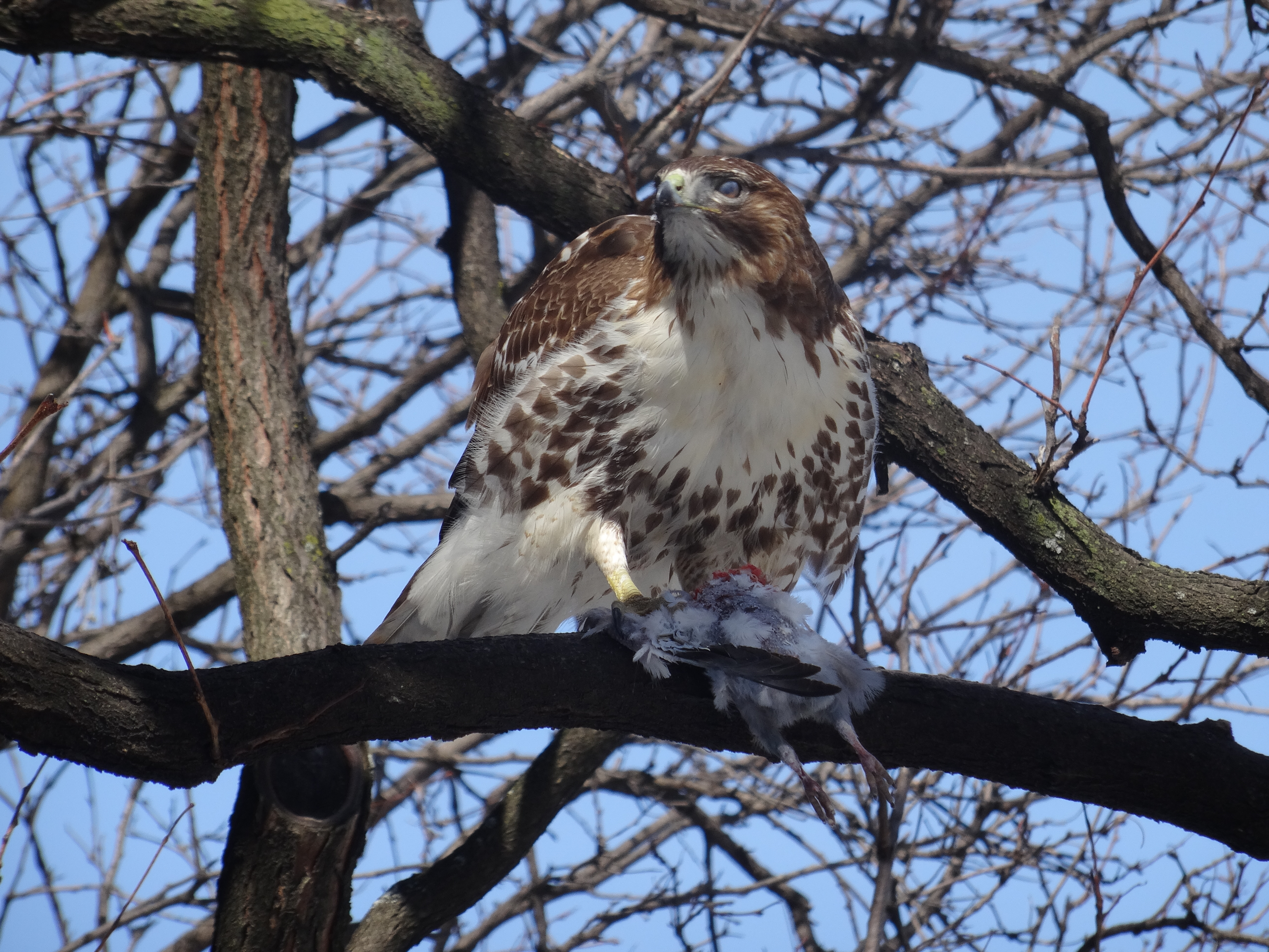 Red tailed hawk eats a bird, beside the St Lawrence Market's North Wing, 2015 02 17 (7)